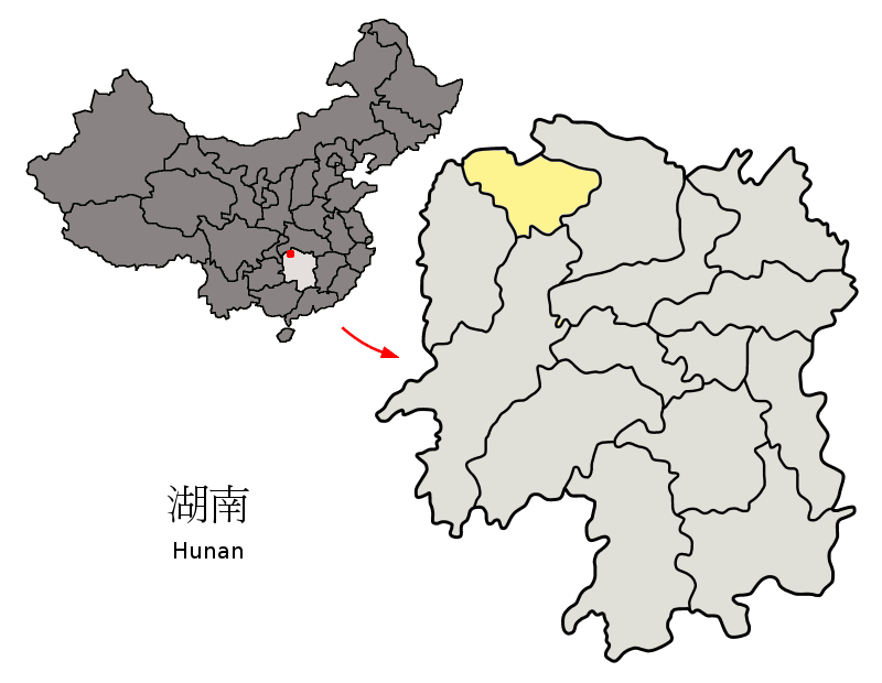 Location of Zhangjiajie Prefecture (yellow) within Hunan Province of China Map drawn in december 2007 using various sources, mainly : Hunan Province administrative regions GIS data: 1:1M, County level, 1990 Hunan Counties map from